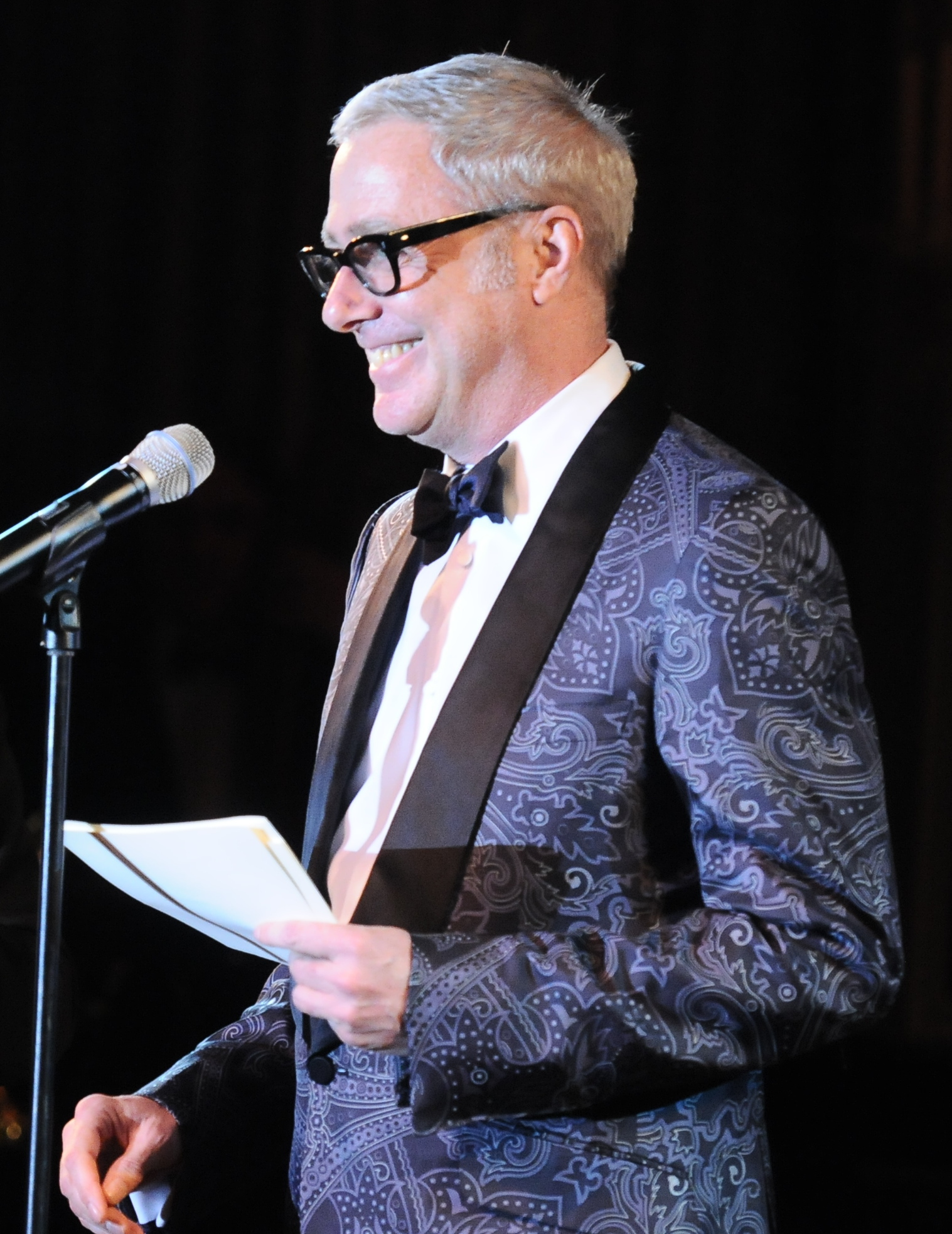 Scott Wittman February 7, 2001